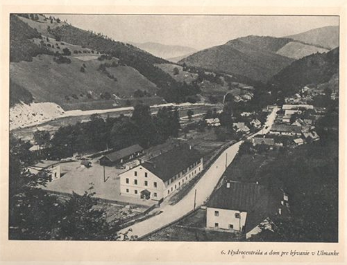 Ulmanka brewery